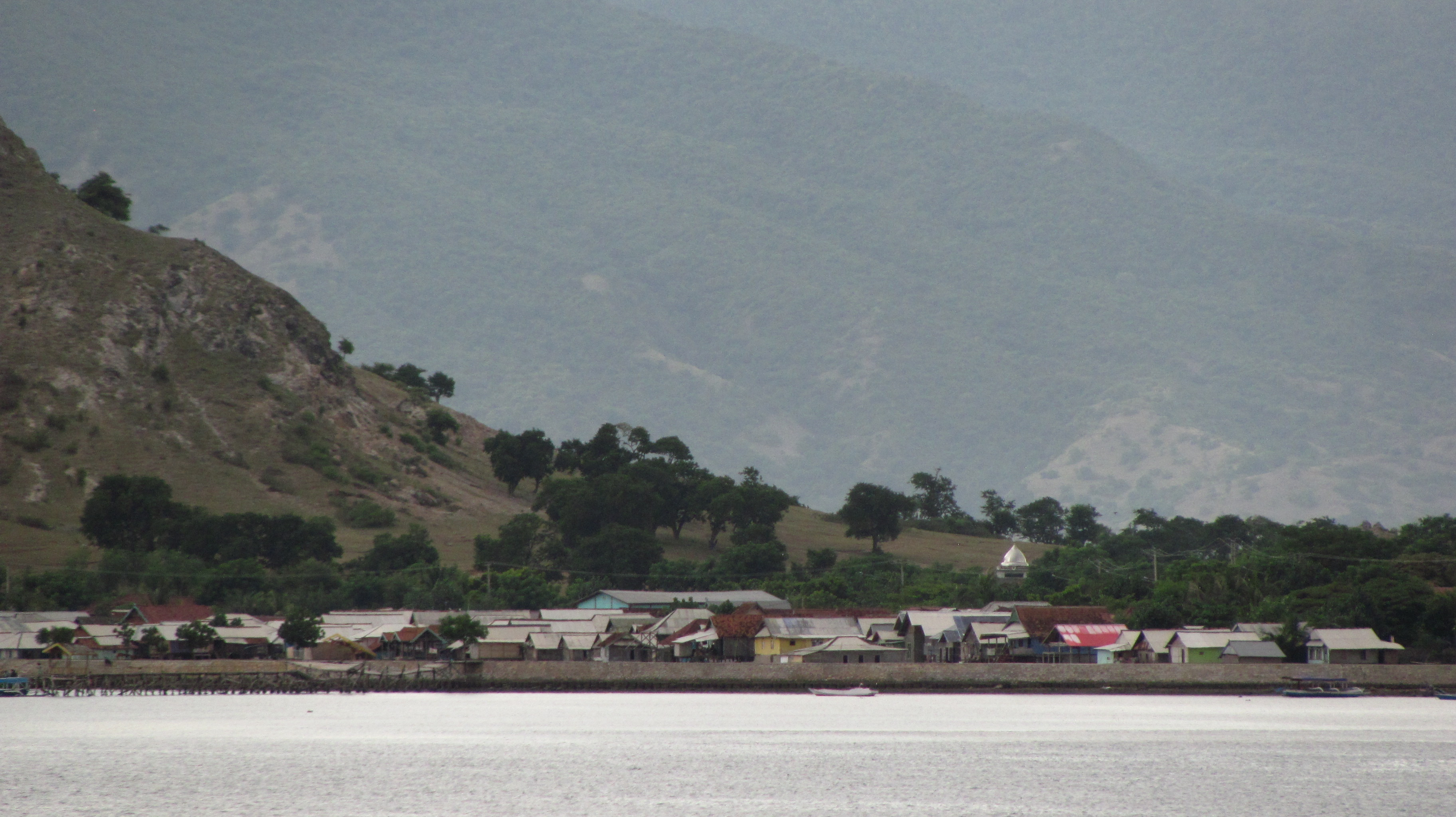 Village of Poto Tano, Sumbawa, Indonesien